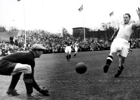 Gustaf Nilsson and Magnus Bergström.